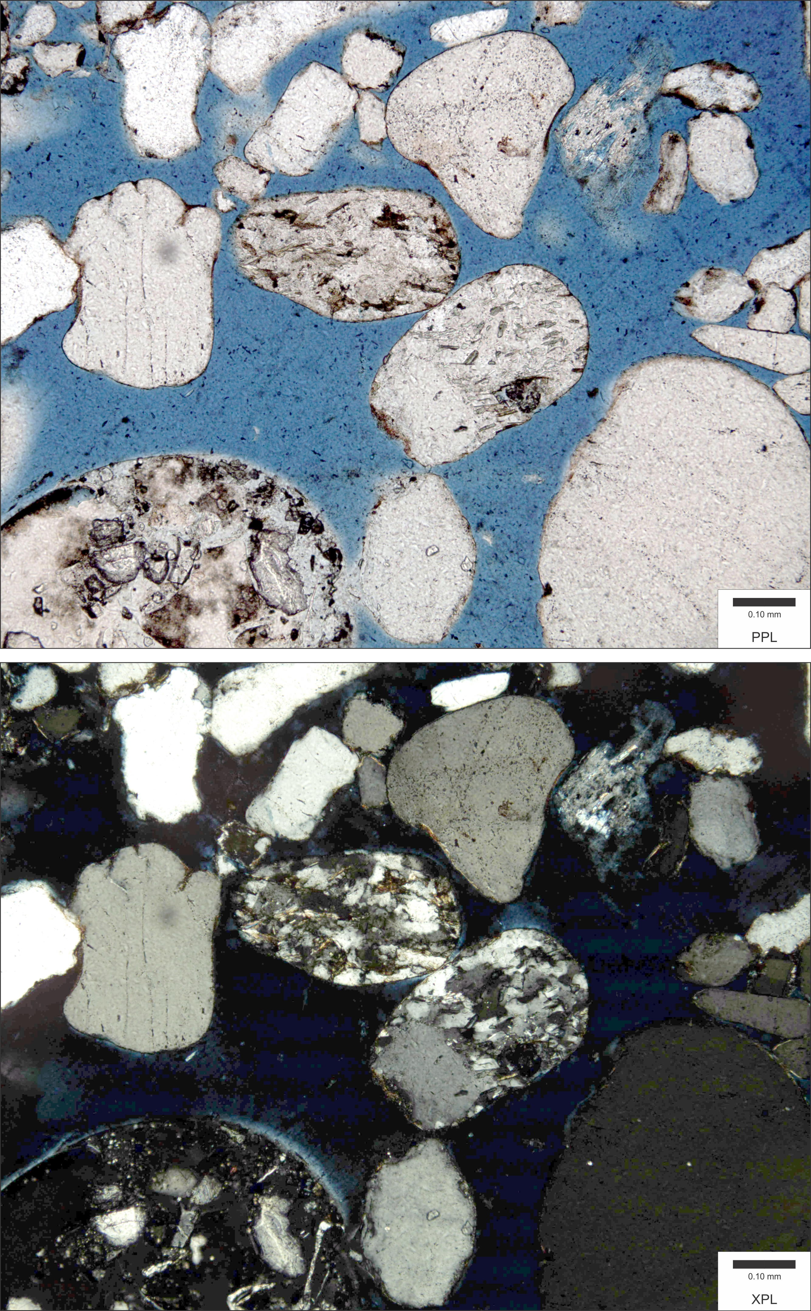 Photomicrograph of a lithic arenite (sandstone) from the Wolfville Formation (Triassic) exposed at Red Head, Nova Scotia. Top image is in plane polarized light (PPL); bottom image is in cross polarized light (XPL). Blue epoxy fills pore spaces.